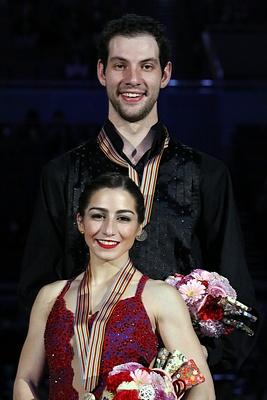 Marissa Castelli and Simon Shnapir at the 2013 Four Continents Championships.